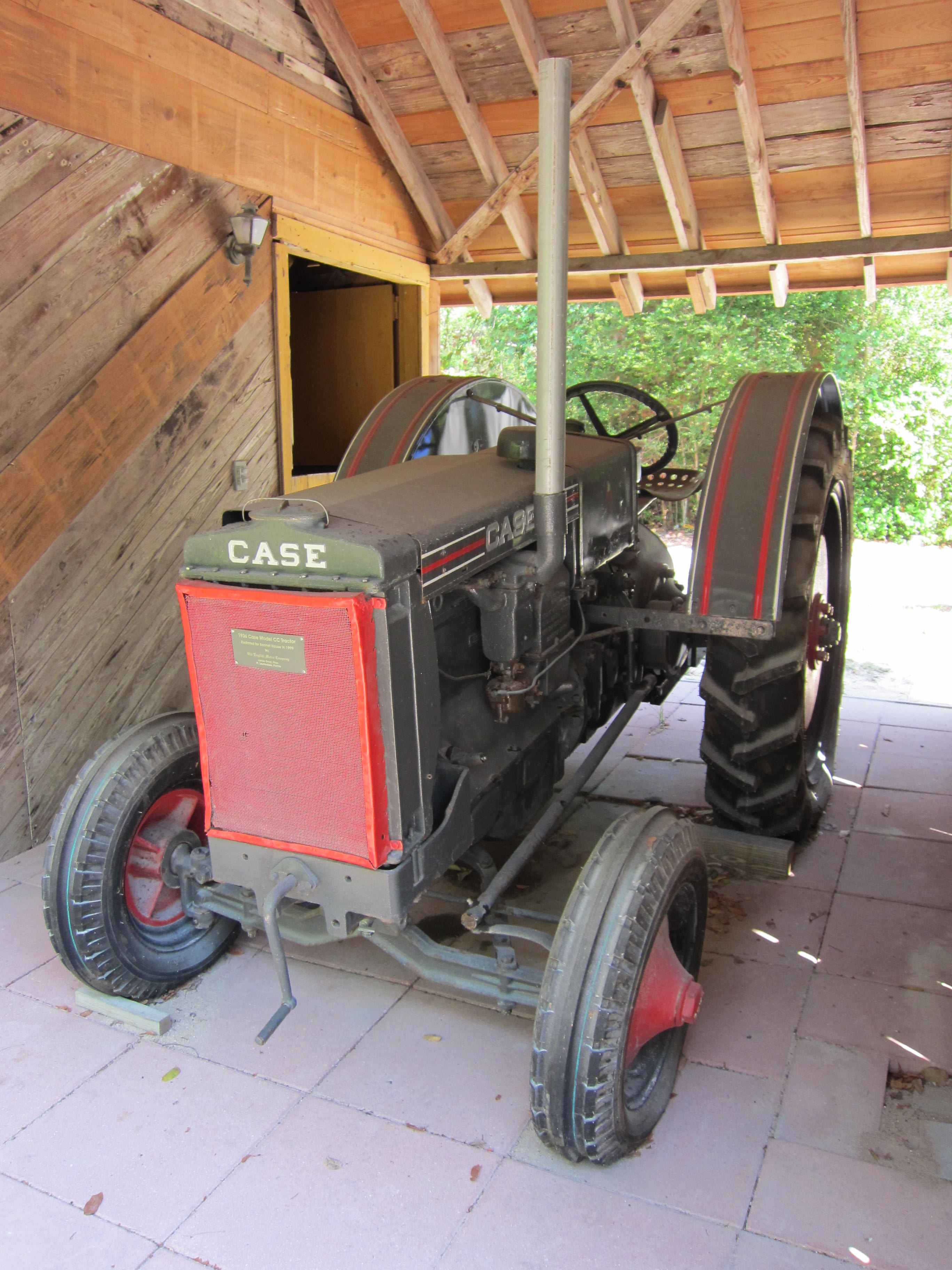 Case Model CC Tractor (1936) in Rosie's Palace at the Bonnet House Museum & Gardens, 900 North Birch Road, Fort Lauderdale, Florida.